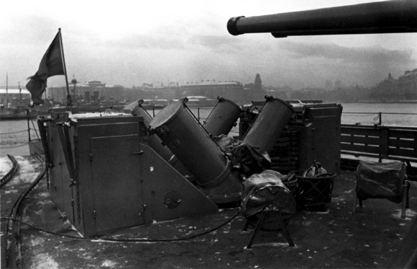 Depth charge launchers onboard the Swedish destroyer HMS Öland.